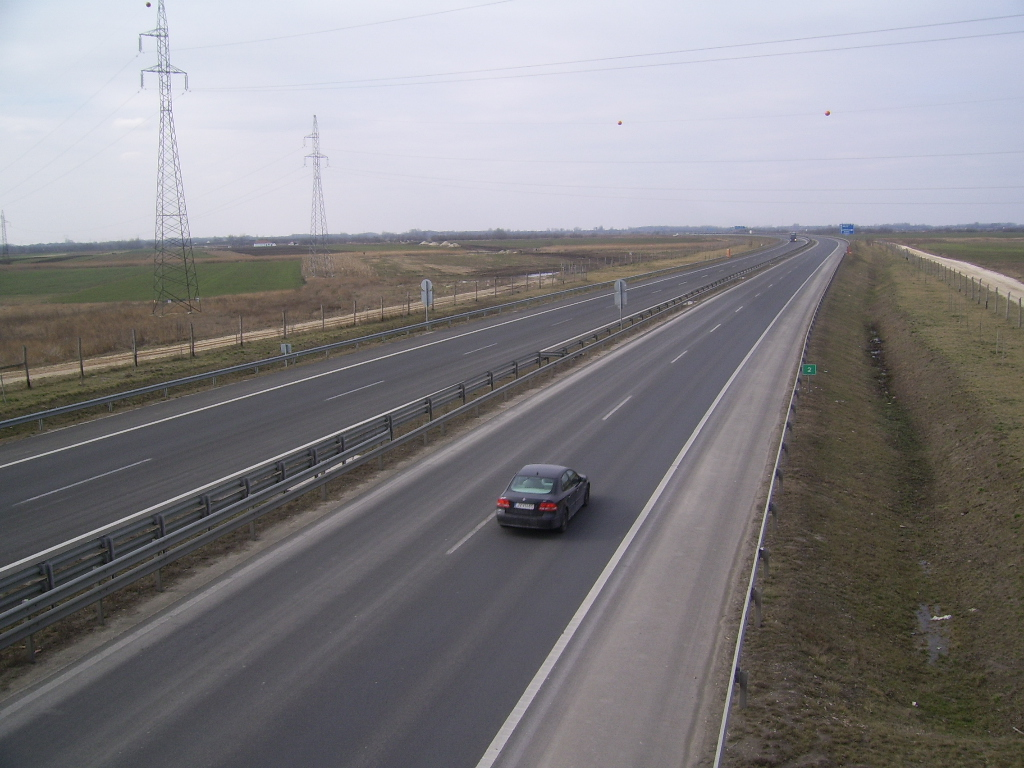 The M43 motorway in Hungary, near Szeged-Kiskundorozsma, looking west